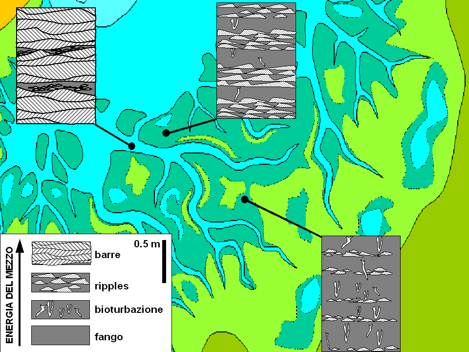 Distribution of the main sedimentary structures in a tidal flat. Text in Italian